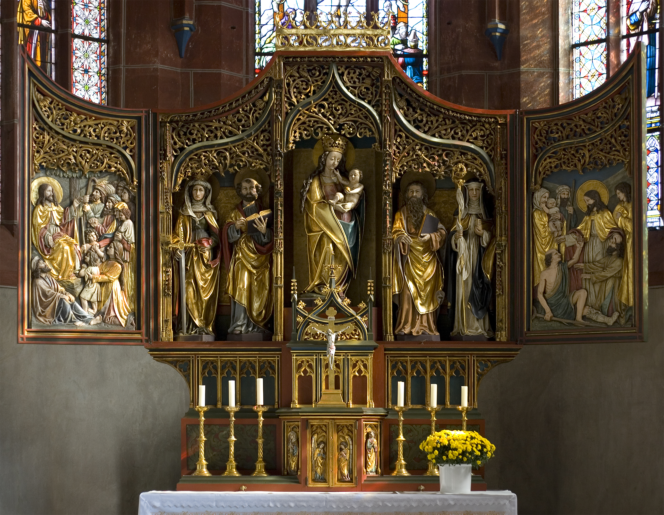 High Altar inside the monastery church, Hirschhorn, Germany. The article about the church says that the altar was manufactured in the 18. century during the baroque era.